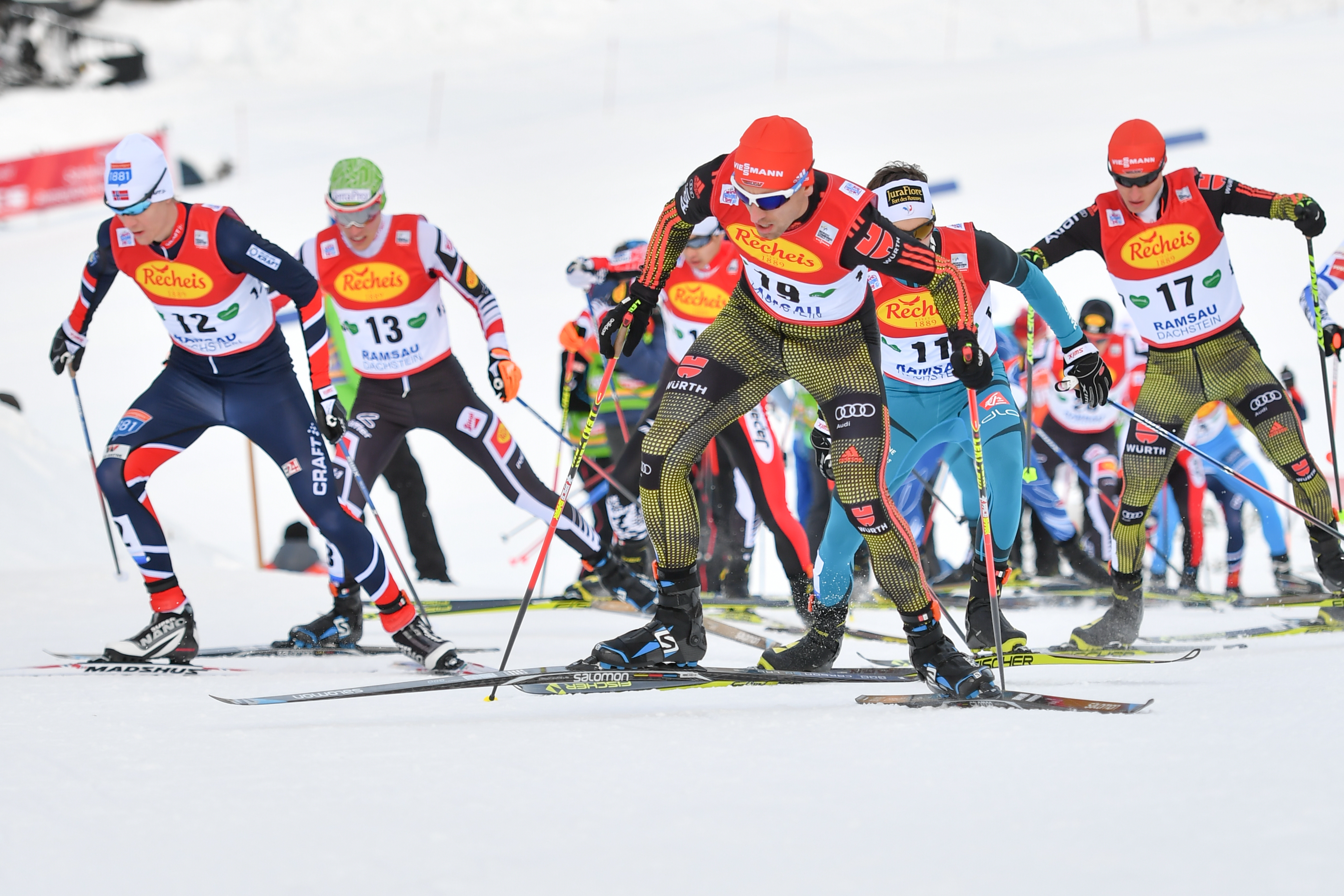 FIS World Cup Nordic Combined, Ramsau/Austria, 2016-12-16 to 2016-12-18.